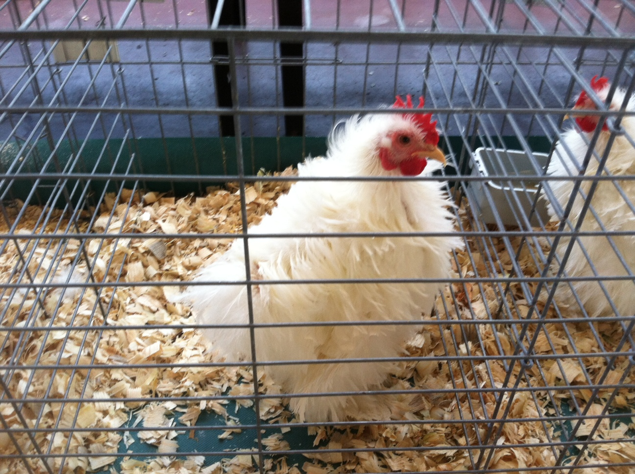 A frizzle chicken at the 2013 Minnesota State Fair in Falcon Heights, Minnesota, USA. Possibly not a frizzle breed, but a chicken of another breed with the frizzle trait. for reference..